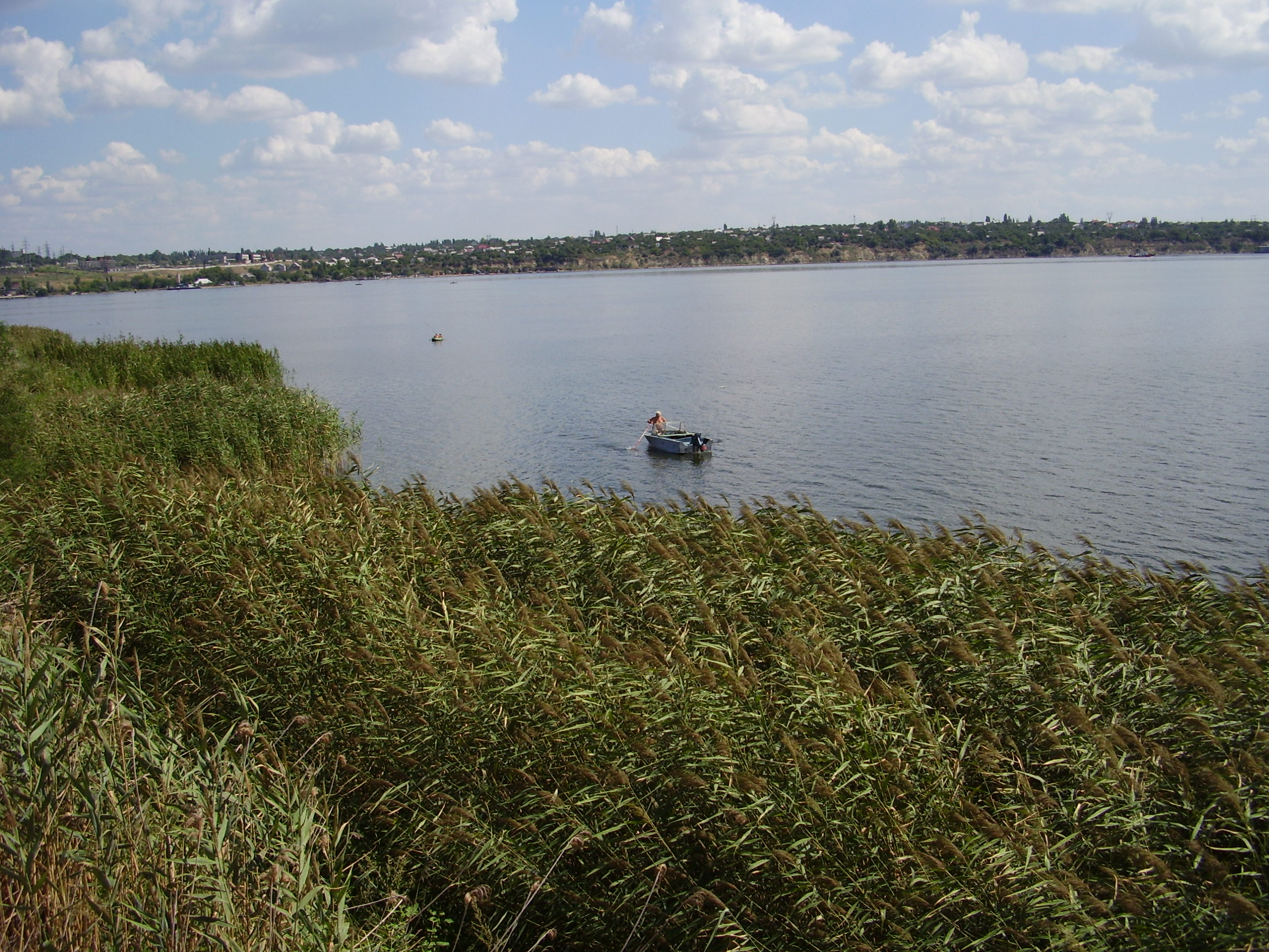 Mykolaiv. View from Battery Island to Shyroka Balka